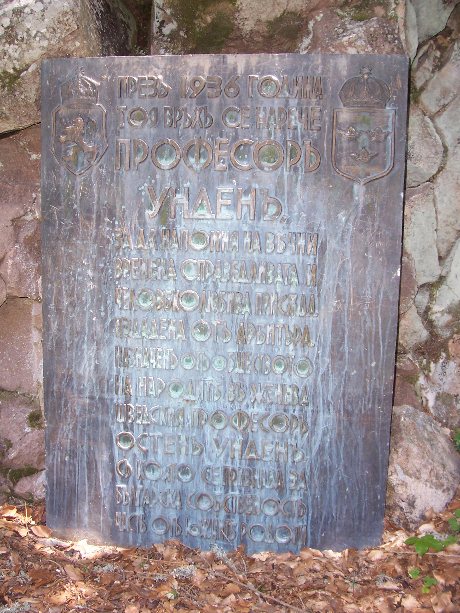 Memorial in the foot of the Unden Summit dedicated on Östen Undén. Text: In 1936 this peak was named ‘Professor Unden’ in order to remind forever about the just and humane verdict pronounced by the arbiter appointed by the League of Nations in Geneva, the Swedish professor Östen Unden with which verdict parts of the Southern Rhodopes are recognized as belonging to Bulgaria.